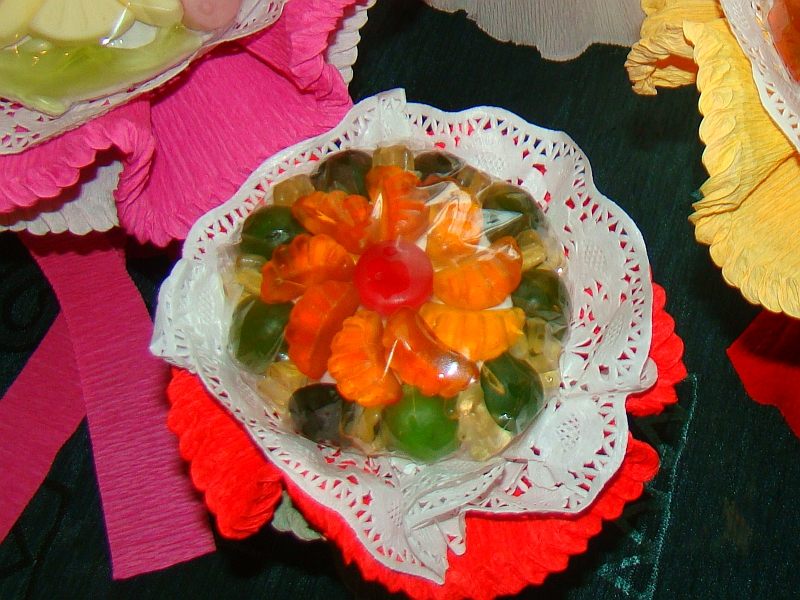 Christmas in Poland